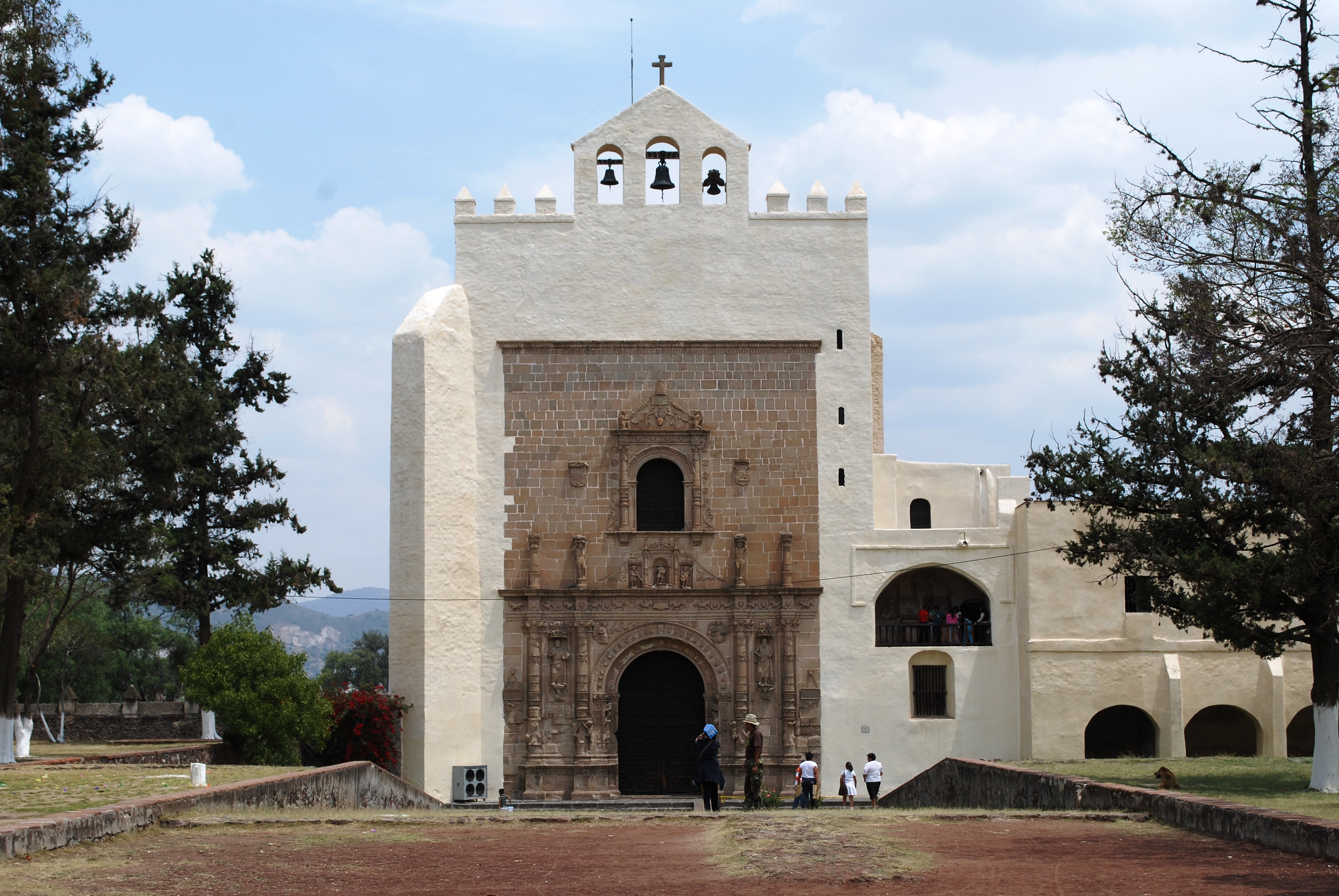 Facade of the church of the former monastery of Acolman, Mexico State